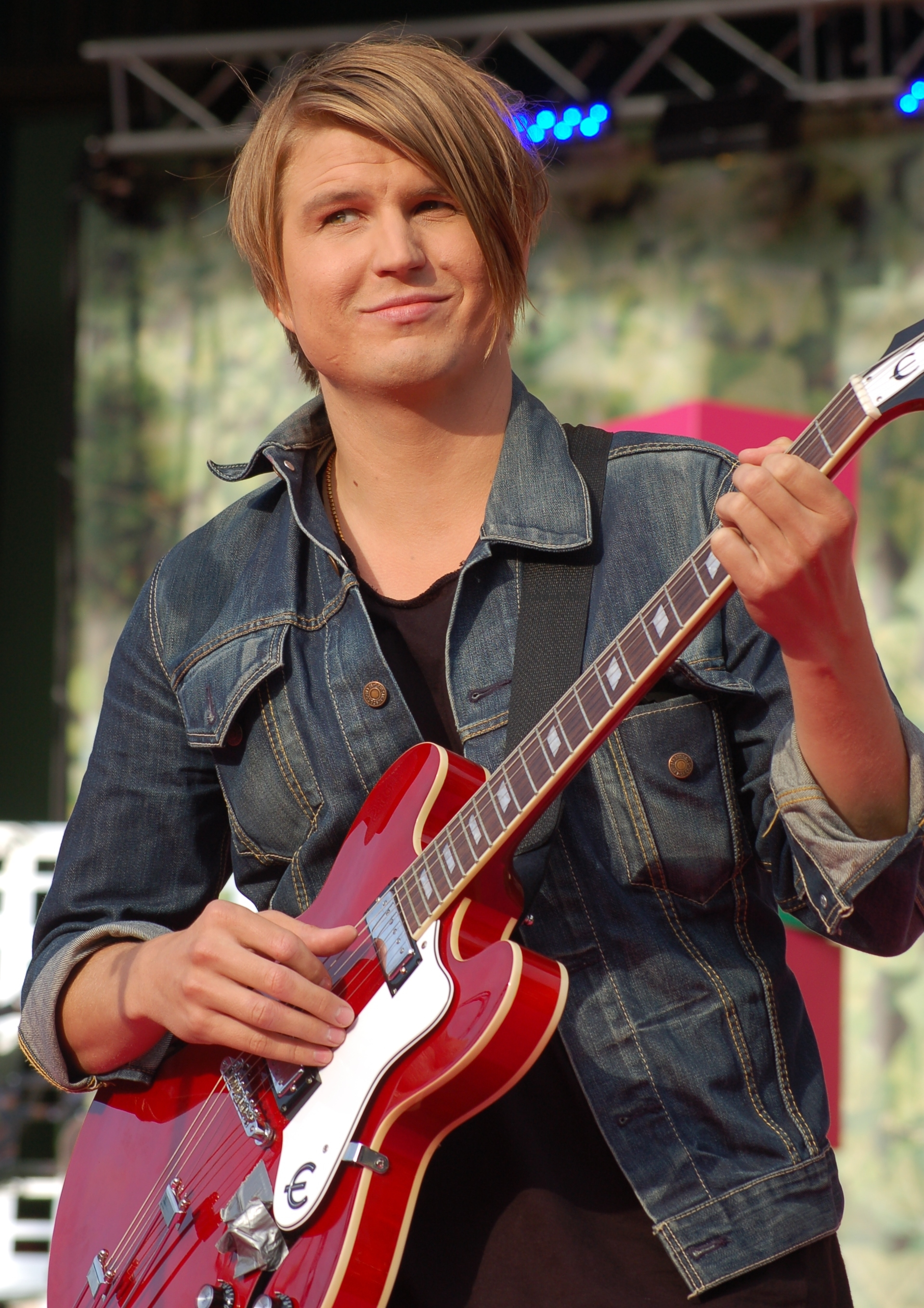 Markus Krunegård at Sommarkrysset, Gröna Lund 2008